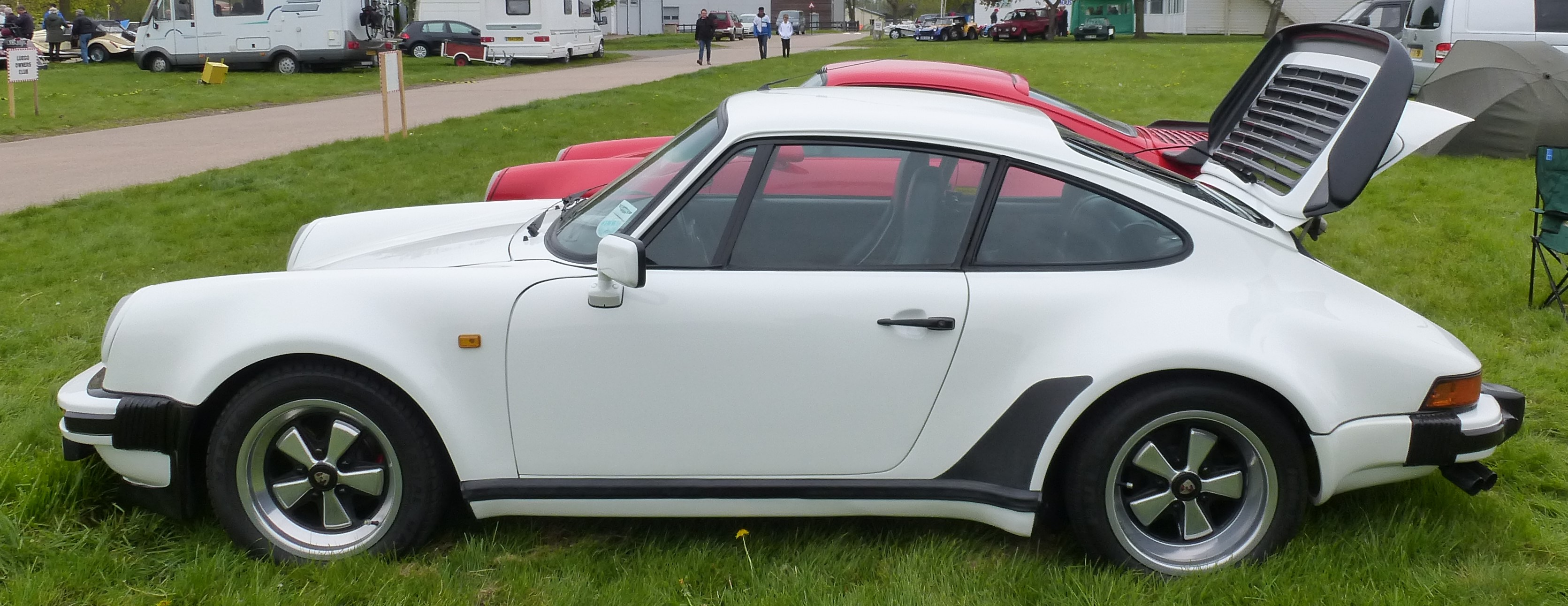 Covin Turbo